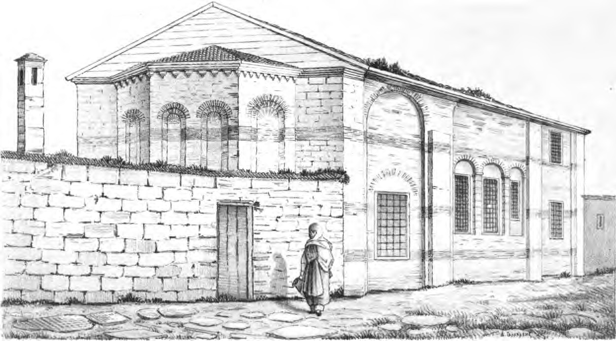 The Toklu Dede Mescidi, located in the Blachernae quarter of Istanbul, Turkey. From G. Paspates' Byzantinai meletai topographikai (1877). It is converted from an as yet unidentified Byzantine church (Paspates identifies it with St. Thekla, but the identity is by no means secure or undisputed). Author: Paspatēs, Alexandros Geōrgiou, 1814-1891. [from old catalog] Subject: Inscriptions, Greek Year: 1877 Possible copyright status: NOT_IN_COPYRIGHT Language: English Digitizing sponsor: Google Book contributor: Oxford University Collection: europeanlibraries